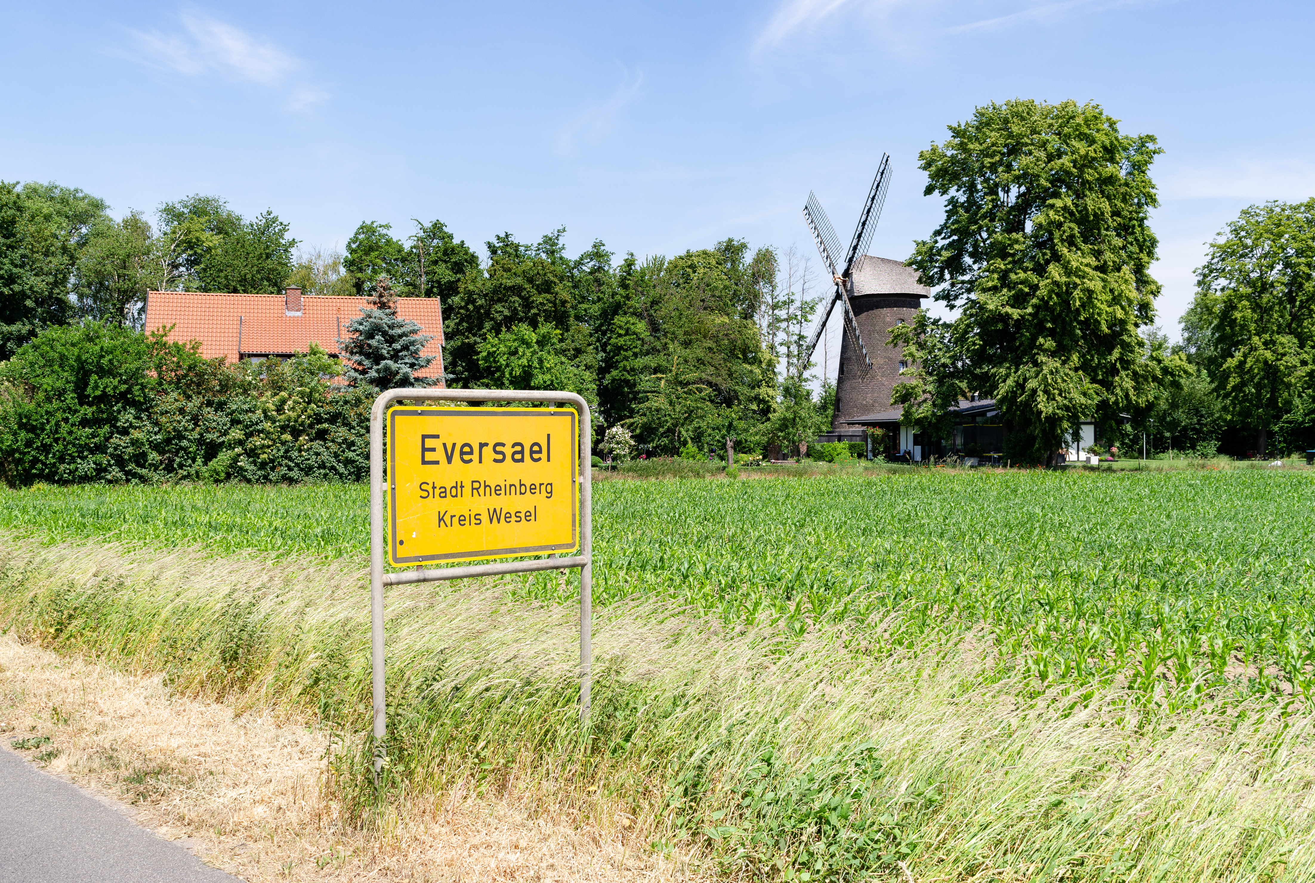 Rheinberg (North Rhine-Westphalia, Germany) – district Eversael – village entrance and windmill of Drießen